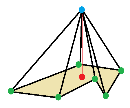 Pyramid (geometry) example